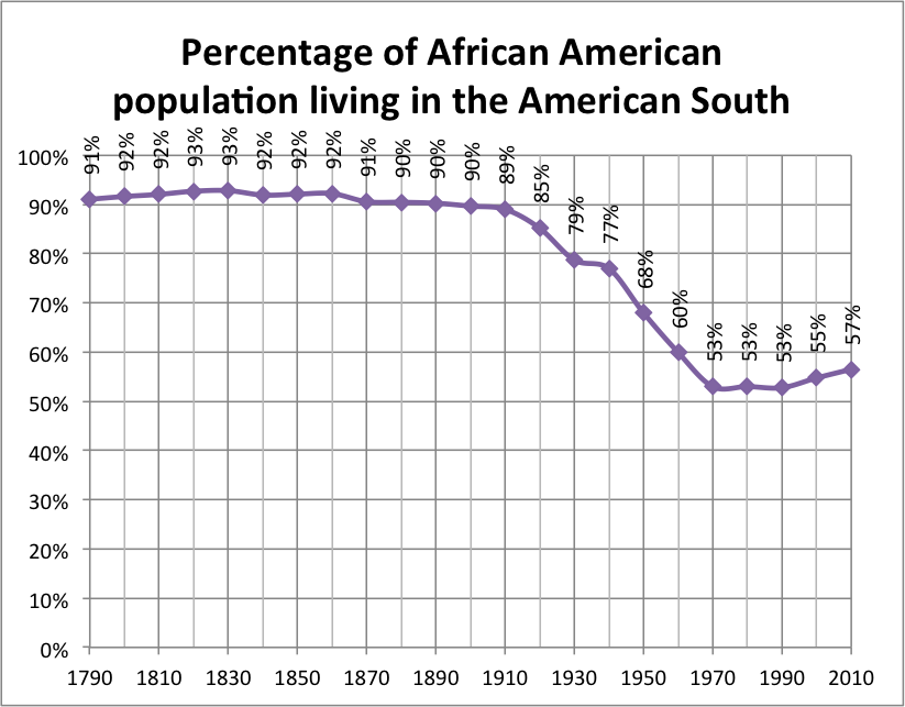 Graph showing the percentage of the African American population living in the American South. Declining period between 1910-1970 is known as the Great Migration. Demonstrates that the absolute majority of the African American population has always lived in the American South. Sources: Gibson, Campbell, and Kay Jung. Historical Census Statistics on Population Totals by Race, 1790 to 1990, and by Hispanic Origin, 1970 to 1990, for the United States, Regions, Divisions, and States. Washington, DC: U.S. Census Bureau, September 2002. Web. . "Profile of General Population and Housing Characteristics: 2010; 2010 Census Summary File 1." U.S. Census Bureau. Web. . 12 Aug 2015. "Profile of General Population and Housing Characteristics: 2000; 2000 Census Summary File 1." U.S. Census Bureau. Web. . 12 Aug 2015.